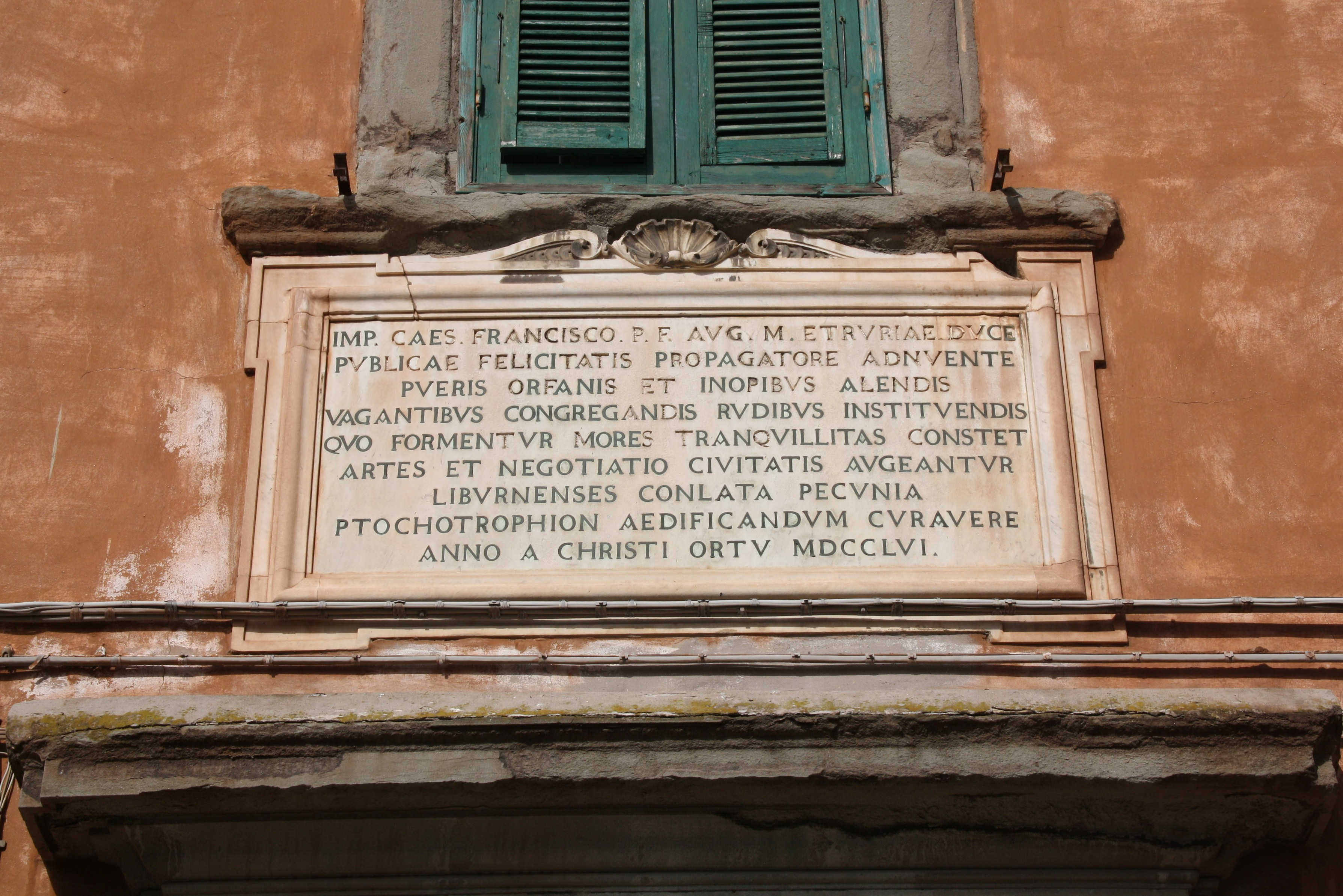 Italy, Livorno, Scali del Refugio, Palazzo del Refugio. The plaque dated 1756 placed over the entrance.